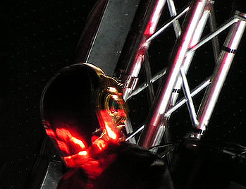 Guy-Manuel de Homem Christo of Daft Punk, cropped from group photo